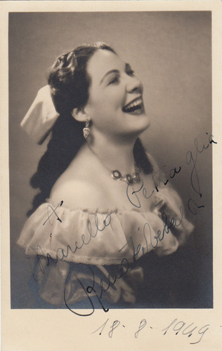 Renata Tebaldi